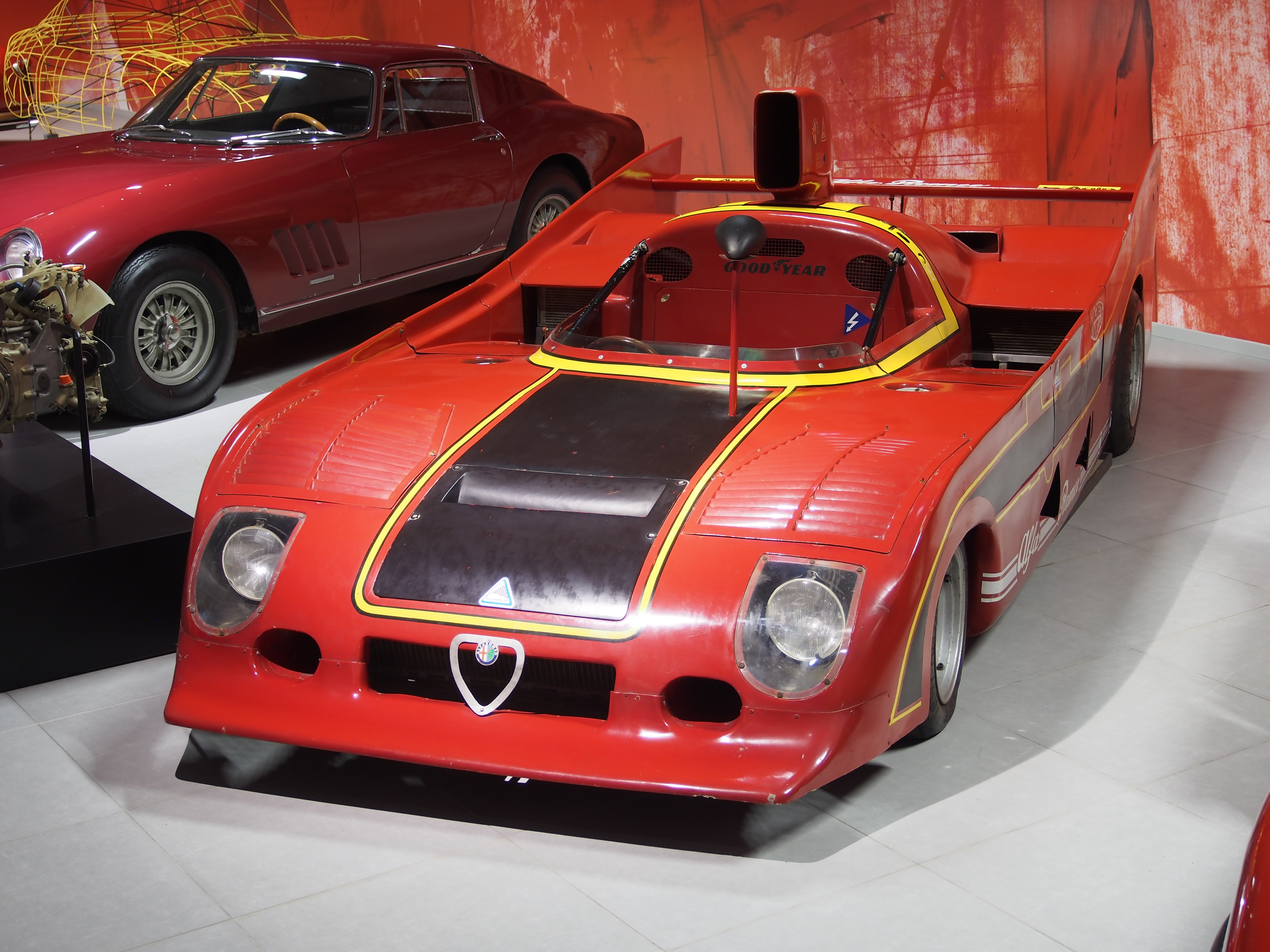 1976 Alfa Romeo Tipo 33 SC 12 photographed at the Louwman museum.